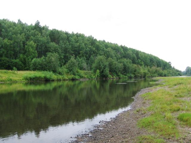 Ufa river, Russia